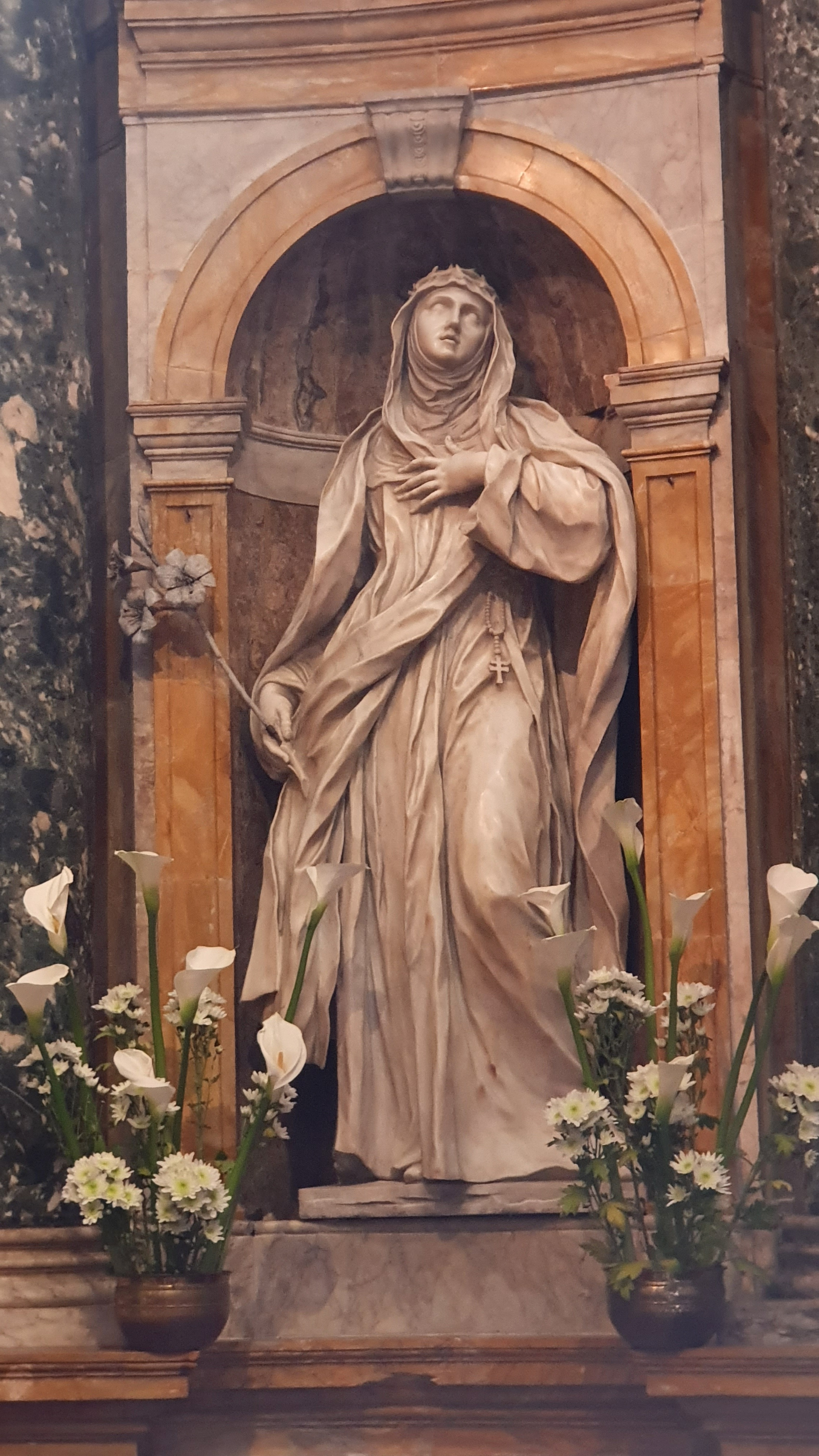 St Catherine of Siena by Ercole Ferrata (Chigi Chapel, Siena)